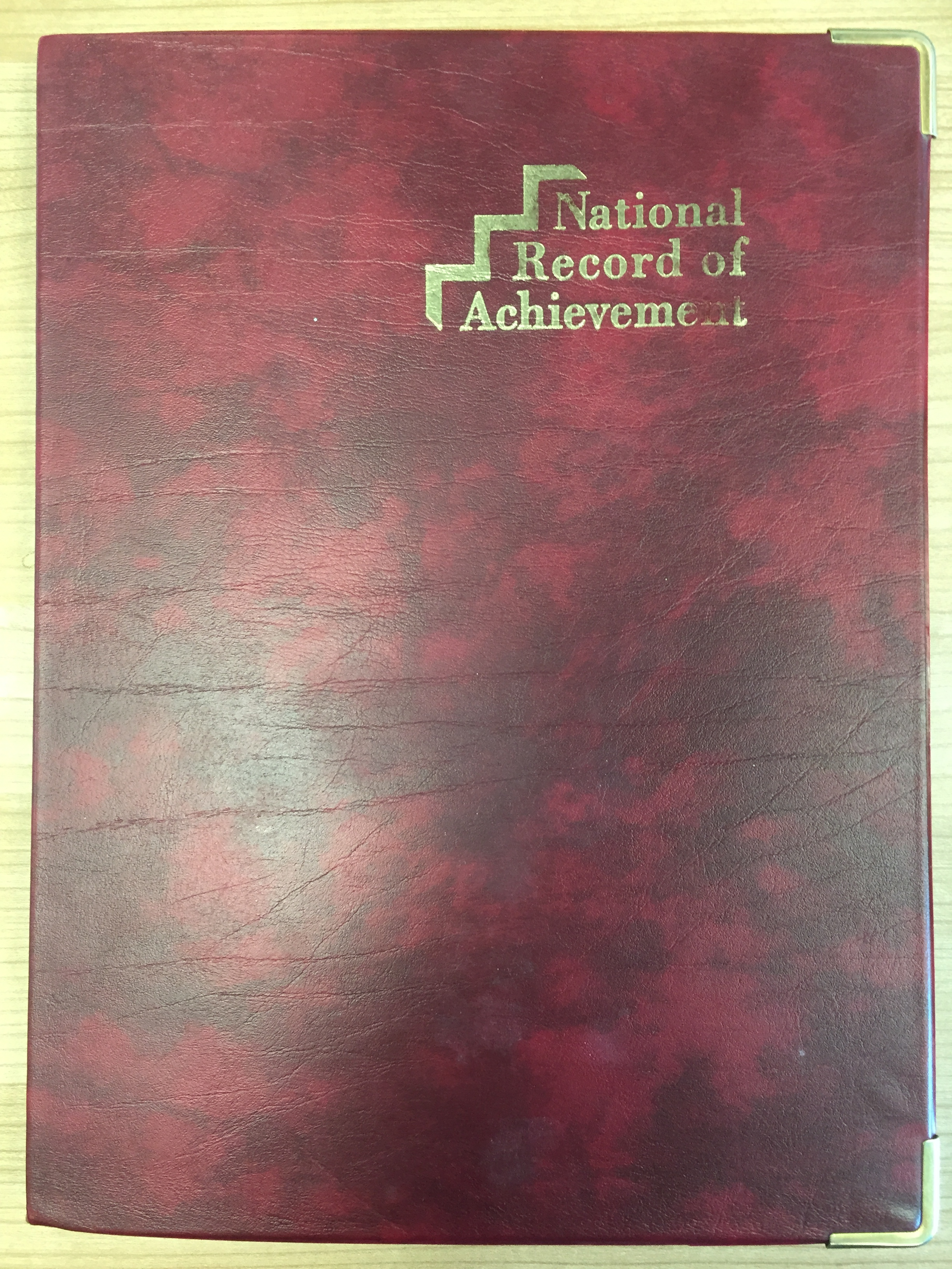 Example of the national record of achievement folder that was given to students